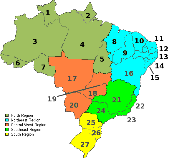 Brazil map states with numbers and regions